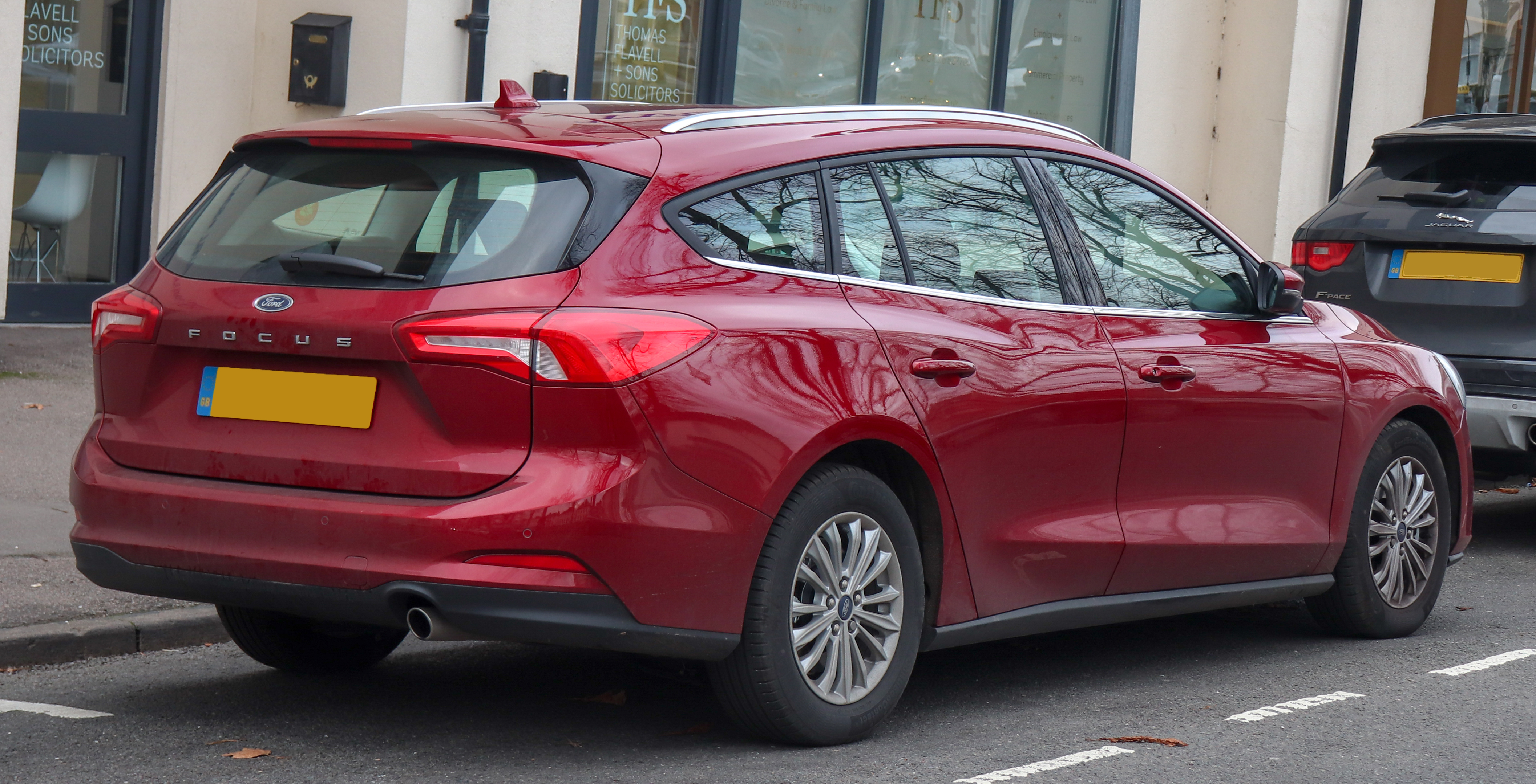 2018 Ford Focus Titanium Estate 1.5 Rear Taken in Leamington Spa